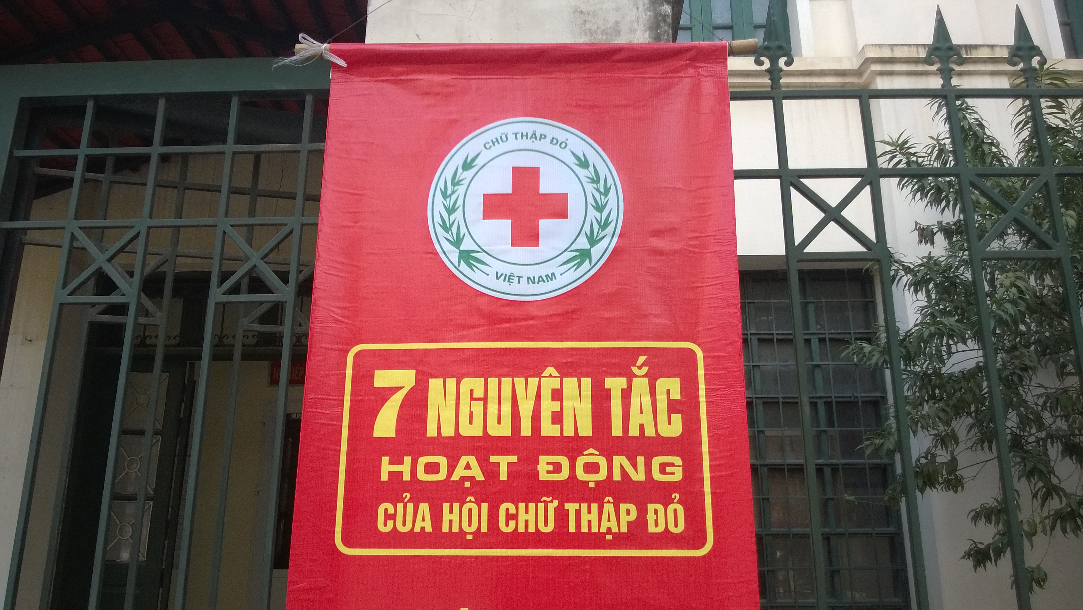 A banner at the Red Cross office in the Hai Ba Trung district, Hanoi in 2014.